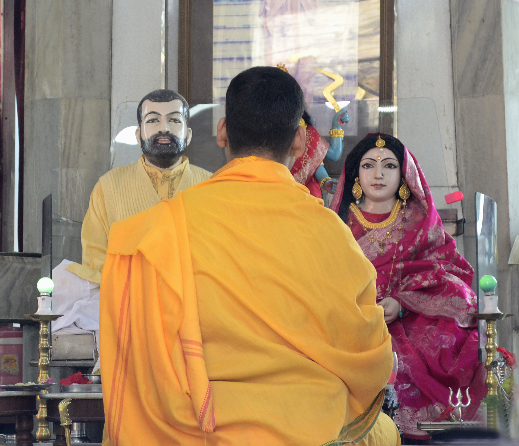 Kanch Mandir or Kancher Mandir means the temple made of glass, also popularly known as Sheesa Mandir., which is situated on the premises of Ramkrishna Ashram of baranagar, Kolkata. Swami Satyananda, an ardent follower of Swami Abhedananda, founded this temple. The idol of Goddess Kali is installed inside the temple along with the idol of Shri Ramkrishna paramahansa and his wife Sarada Devi.